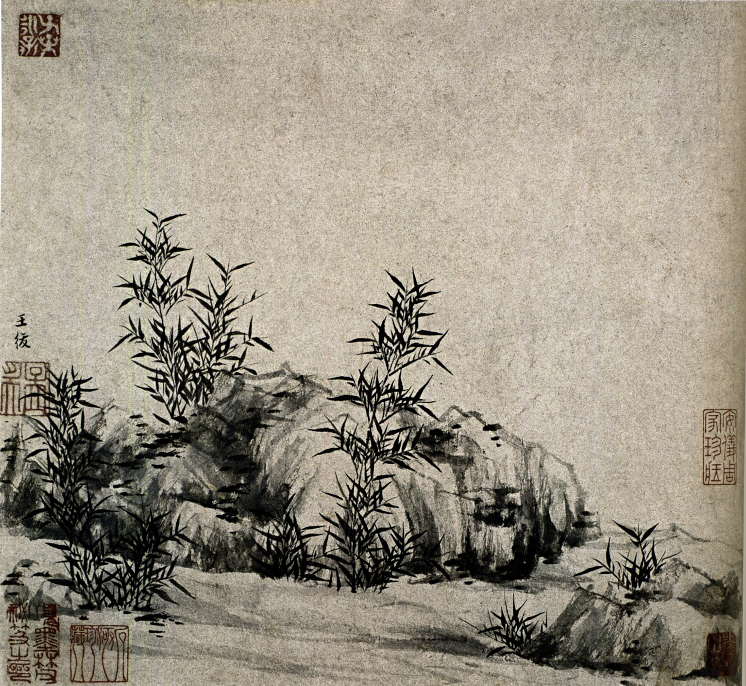 Young Bamboo with Clouds, Roots, and Brush, hanging scroll, ink on paper, 26 x 29.5 cm. Located at the Palace Museum, Beijing.